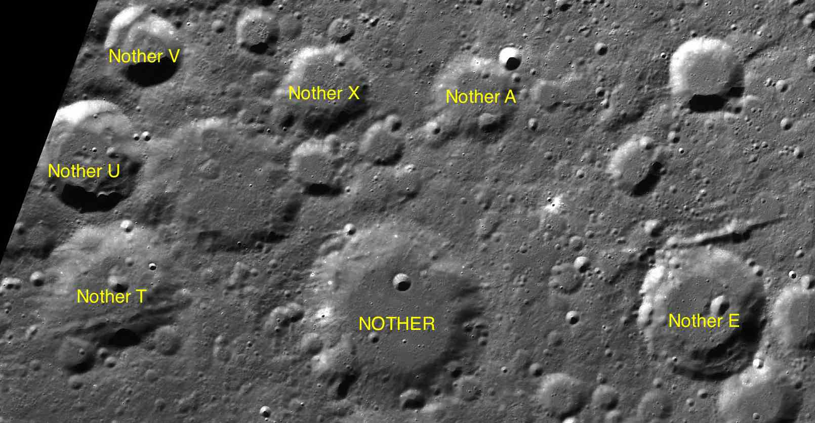 Part of the chart LAC-9 used for the presentation